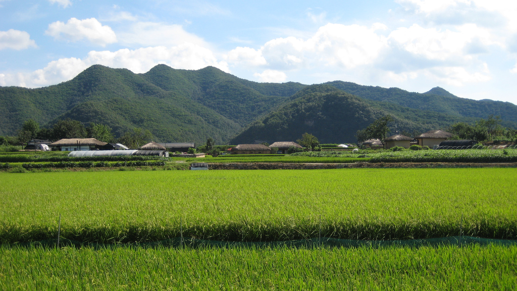 A scenery of Hahoe Folk Village in Andong, Gyeongsangbuk-do, South Korea